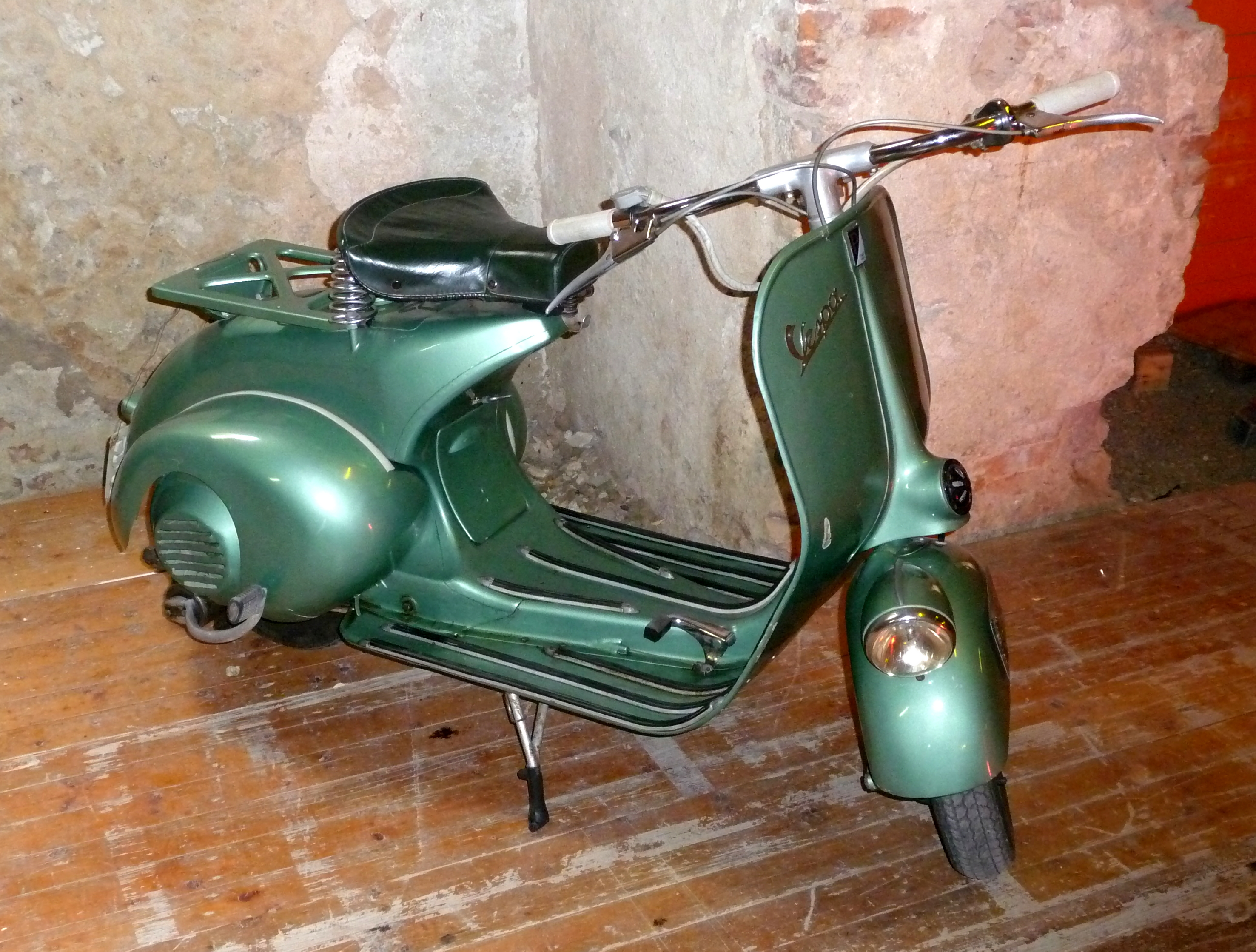 Piaggio - Vespa